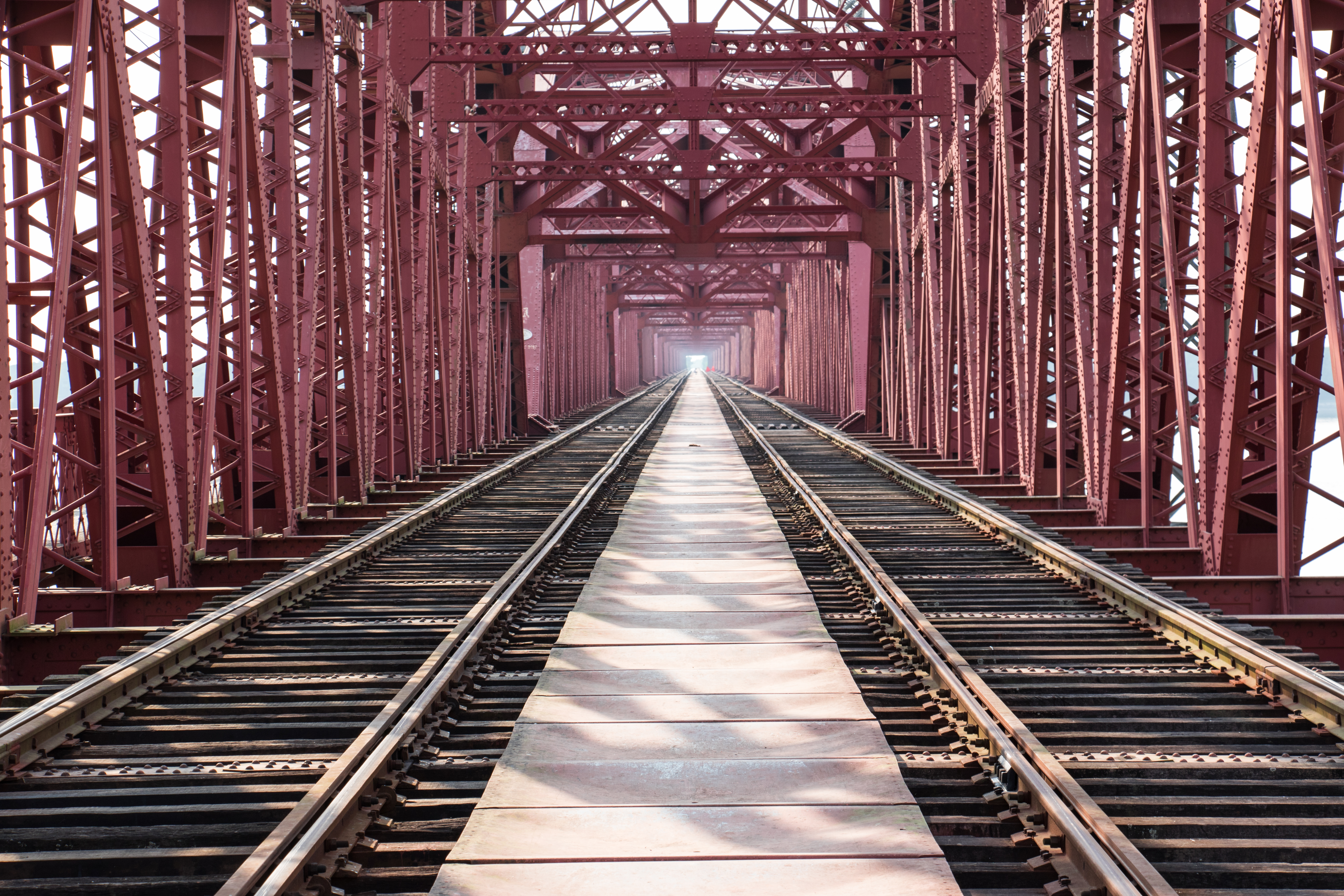 Hardinge Bridge. It was completed in 1912, and trains started moving on it in 1915.